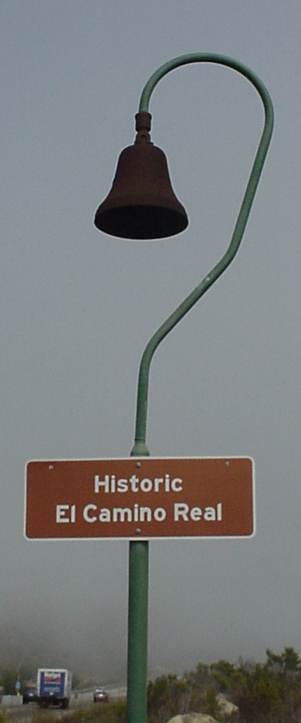 State of California highway marker with symbolic mission bell and shepherd's crook designating the historic El Camino Real connecting 18th century Alta California missions. Photo taken adjacent to southbound highway 101 in Santa Barbara County during coastal overcast.